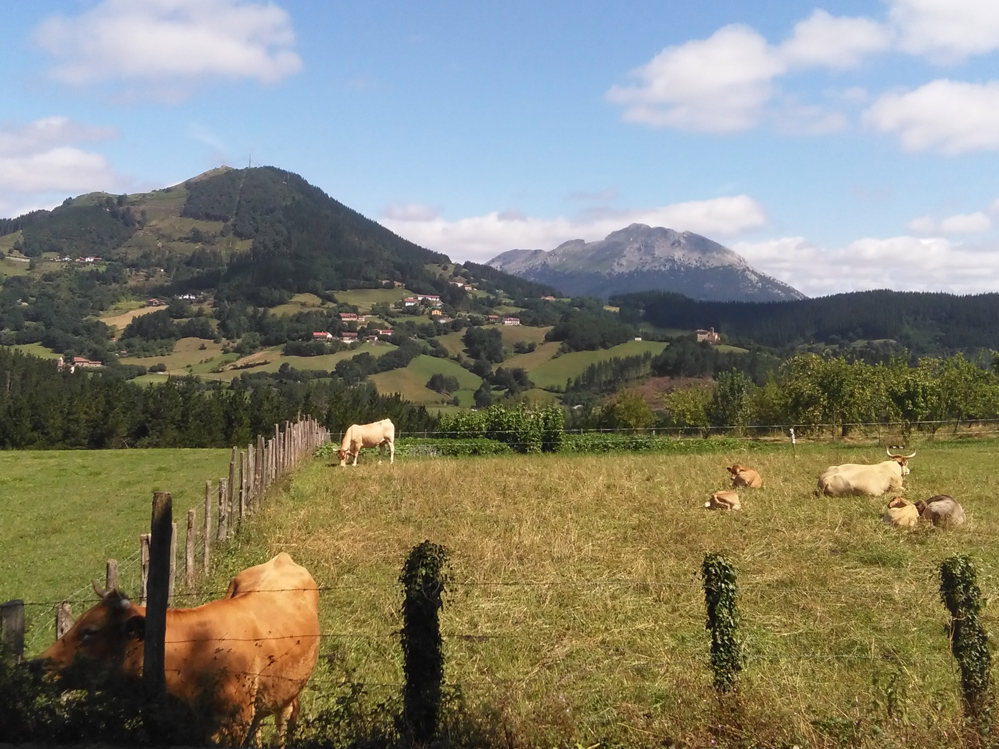 Murugain and Udalaitz mountains